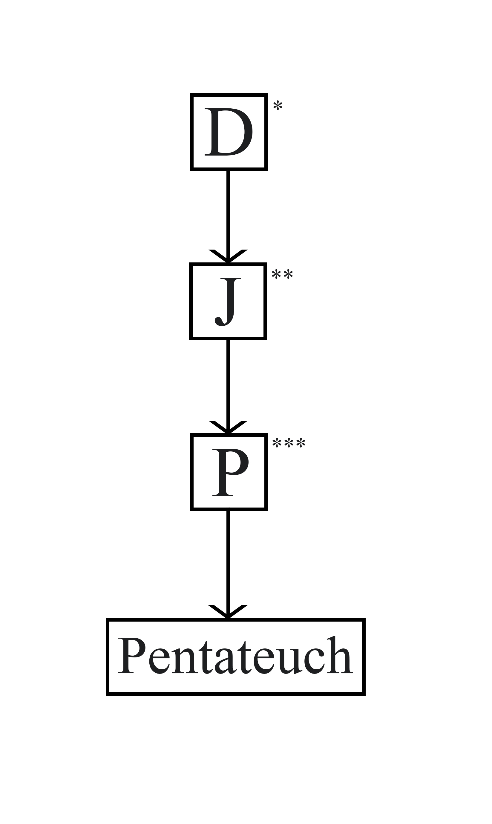 Diagram of the series of sources of the Pentateuch as proposed by the supplementary hypothesis.